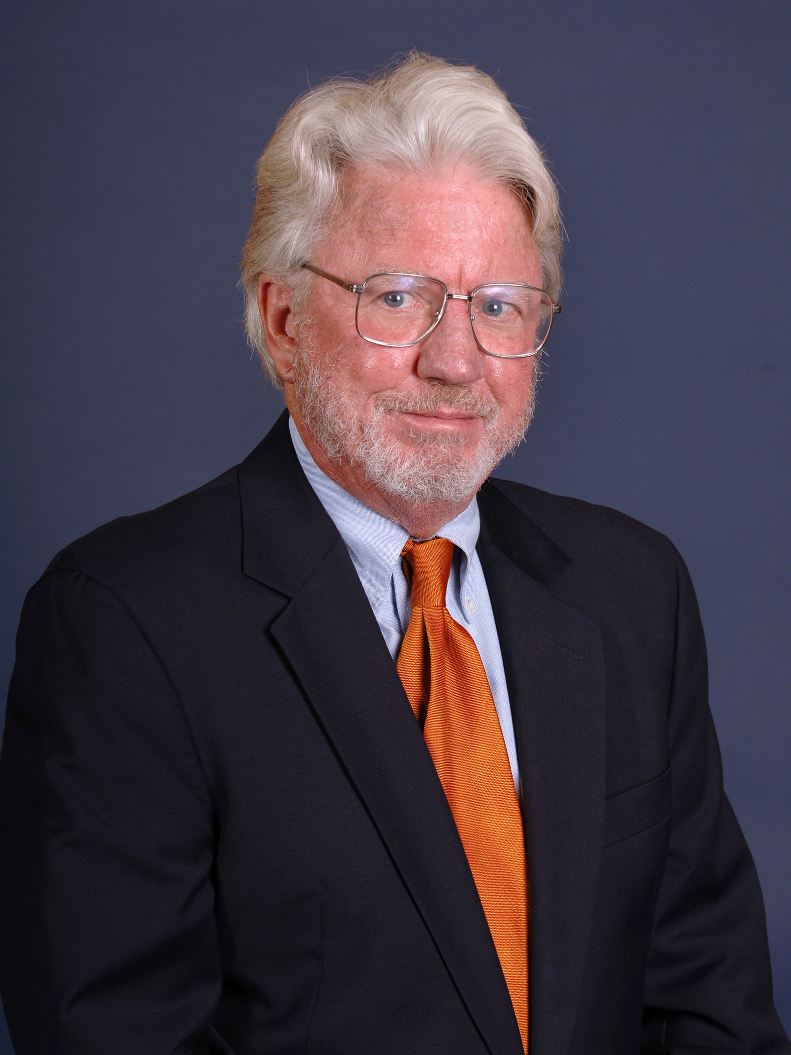 A photo of Paul Janensch in 2007, while he was a professor at Quinnipiac University.